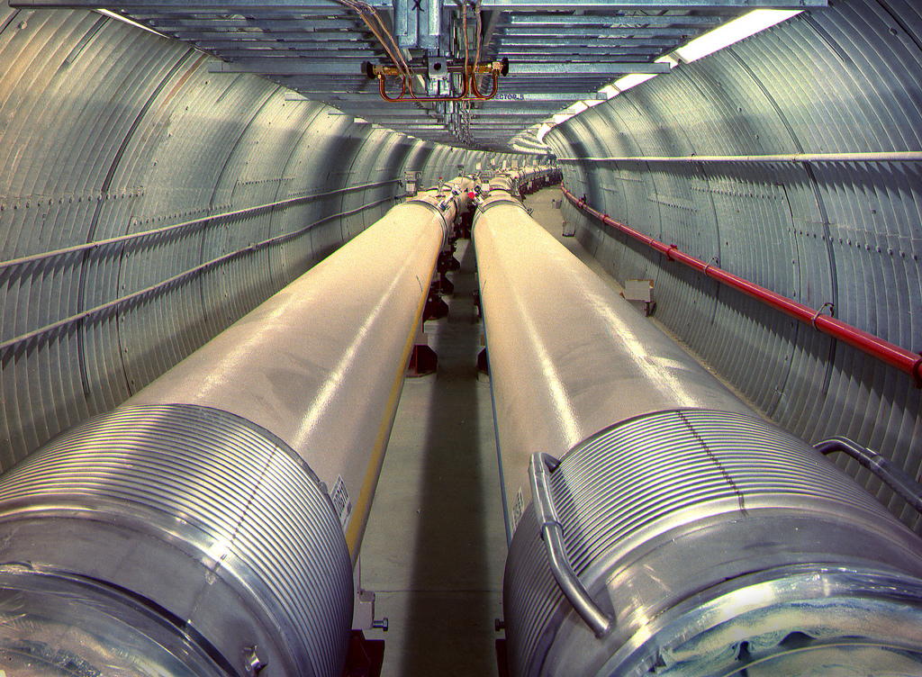 Brookhaven National Laboratory's Relativistic Heavy Ion Collider (RHIC) is really two accelerators in one-made of crisscrossing rings of superconducting magnets, enclosed in a tunnel 2.4 miles in circumference. For more information or additional images, please contact 202-586-5251.